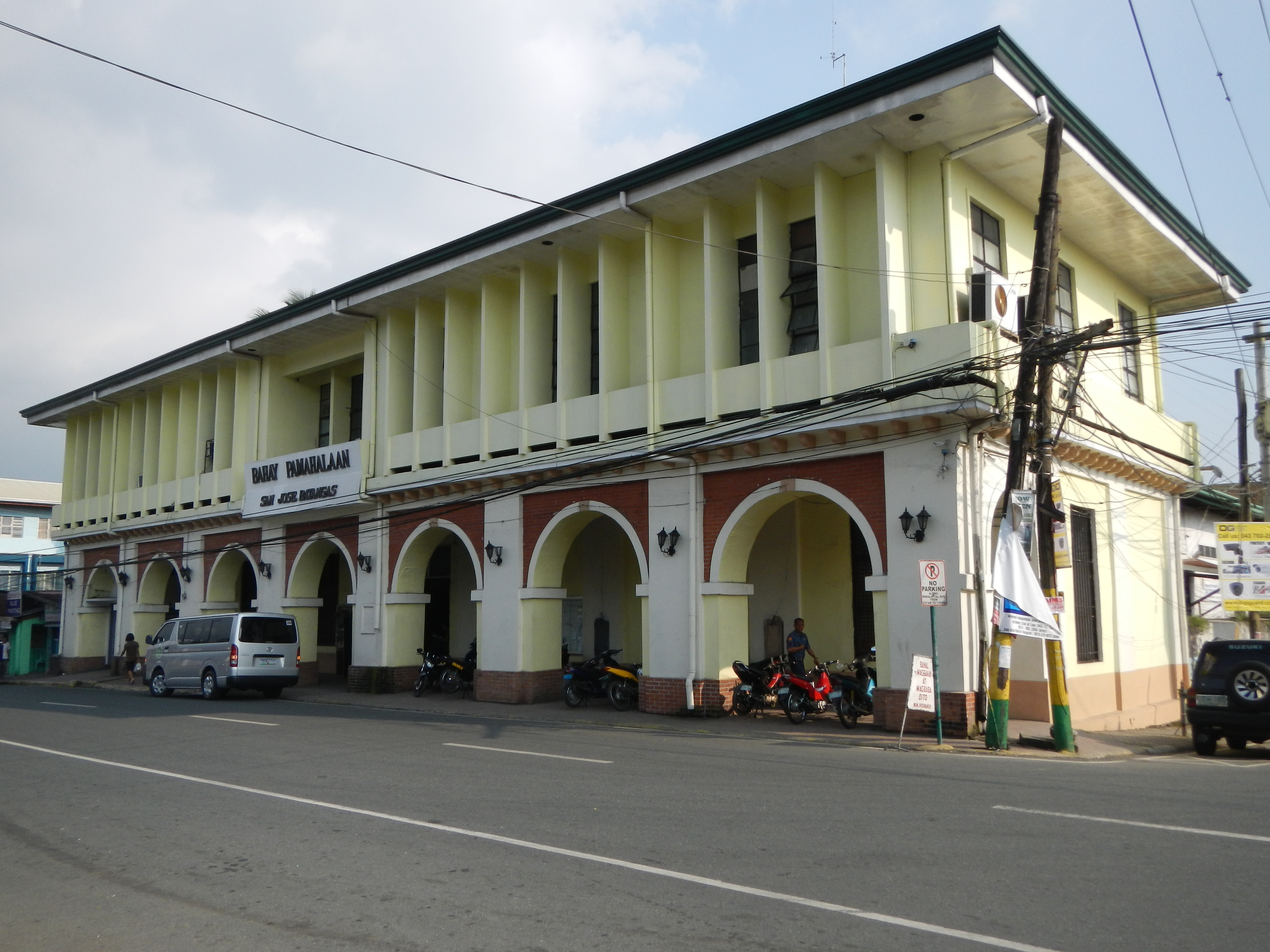 Upload Wizard photos of Hon. Edgardo Ll. Umali Social Hall [1] is San Jose, Batangas' Covered (basketball and gymnasium) Court, Town Proper, Centro, Coordinates: 13°52'43"N 121°6'15"E - the - San Jose Municipal Hall - San Jose, Batangas[2] [3] ZIP Code: 4227 (area: 53.29 km², established on April 26, 1765, a first class municipality in the province of Batangas, Philippines, latest census, a population of 61,307 people in 10,123 households politically subdivided into 33 barangays), C.J. Querube Makalintal Avenue.[4]